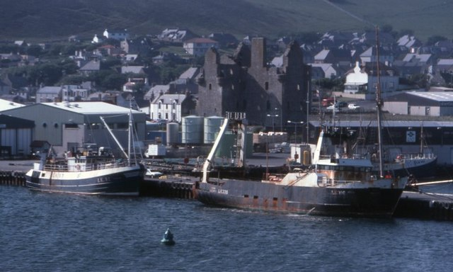 Scalloway harbour Fishing boats on the pier, with the castle beyond.